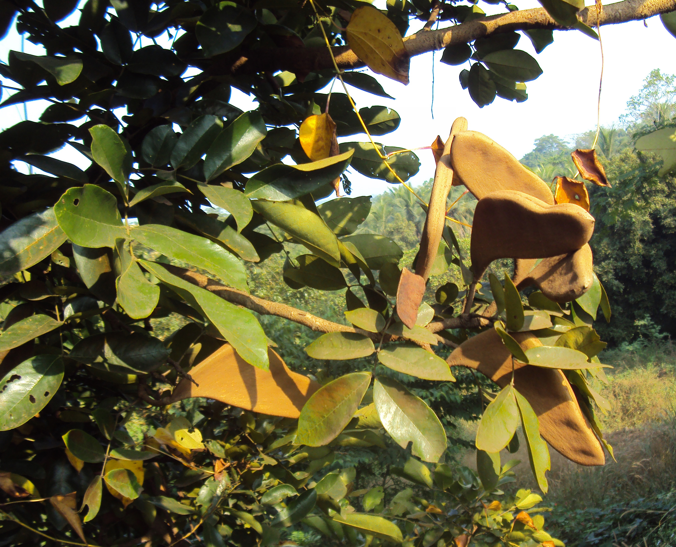 Xylia xylocarpa